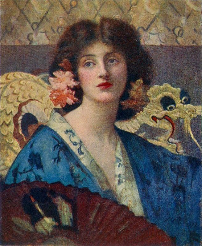 Azaleas